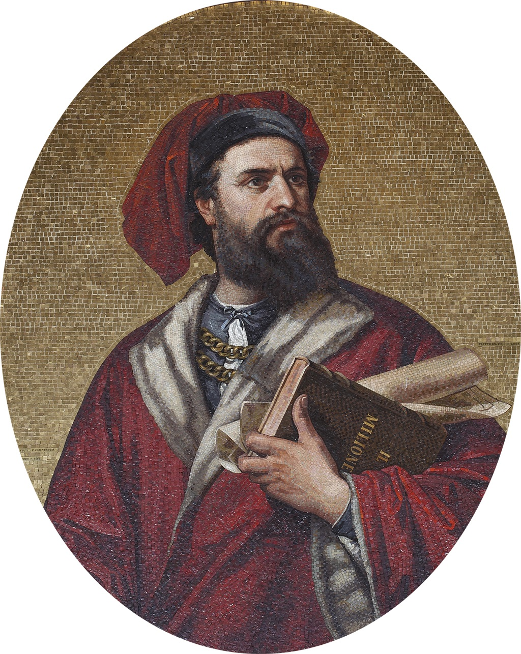 Mosaic of Marco Polo, Municipal Palace of Genoa: Palazzo Grimaldi Doria-Tursi